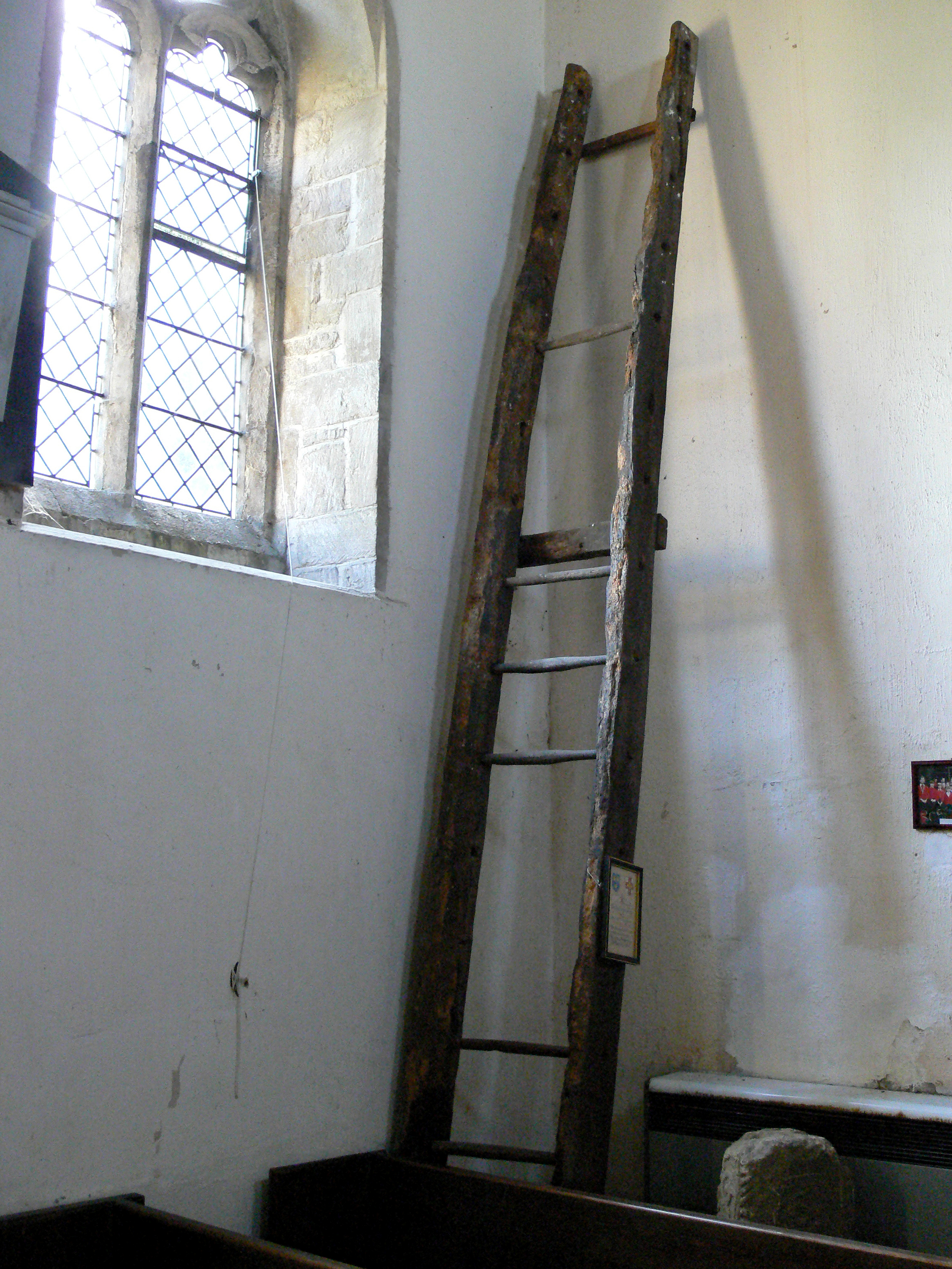 Old ladder in St James' church, Castle Bytham, Lincolnshire, with a carved inscription which reads "THIS WARE THE MAY POVL 1660", suggesting that a maypole was set up in the village to celebrate the restoration of the Monarchy